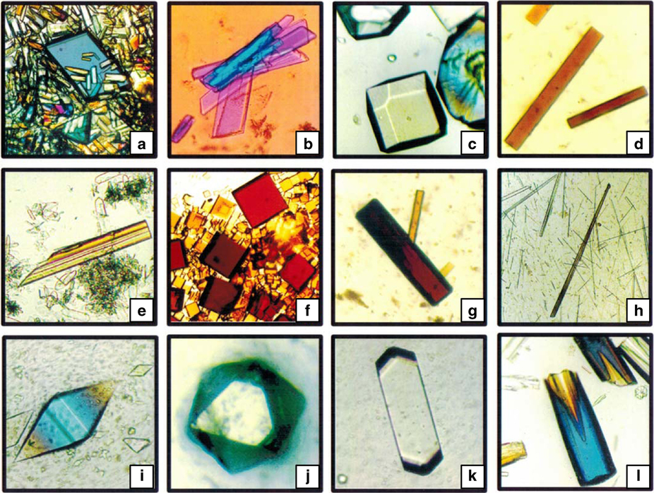 An array of crystals grown in the dewar device that used liquid–liquid diffusion from frozen biphasic samples. This experiment was performed by American investigators (Koszelak et al.75) on the Russian Space Station Mir. The crystals (labeled by row from left to right) are of top row: (a) rhombohedral canavalin, (b) creatine kinase, (c) lysozyme, (d) beef catalase; middle row: (e) porcine alpha amylase, (f) fungal catalase, (g) myglobin, (h) concanavalin B; and bottom row: (i) thaumatin, (j) apoferritin, (k) satellite tobacco mosaic virus (STMV), (l) hexagonal canavalin.